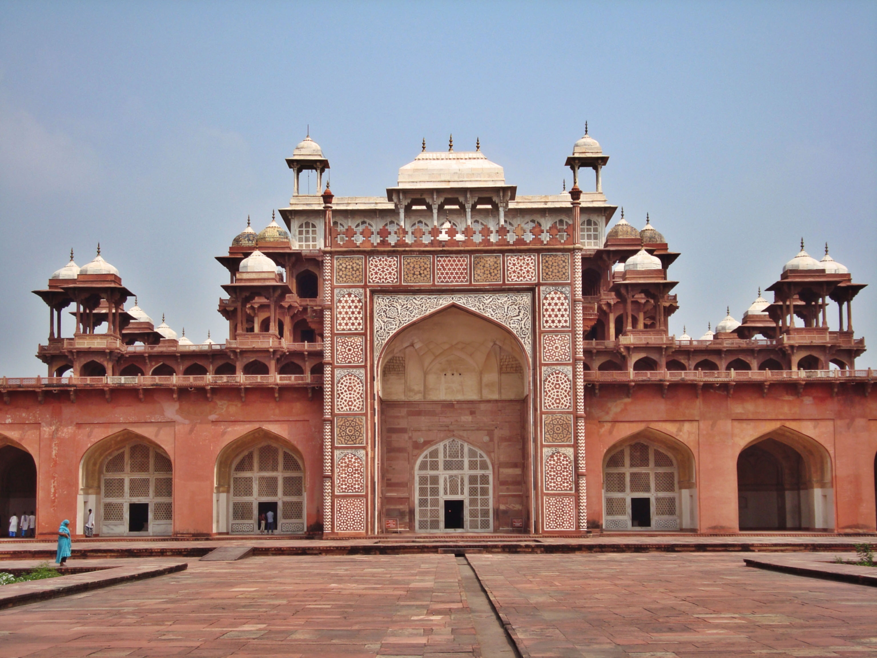 Akbar's Tomb, gateway and walls round the ground. Sikandara